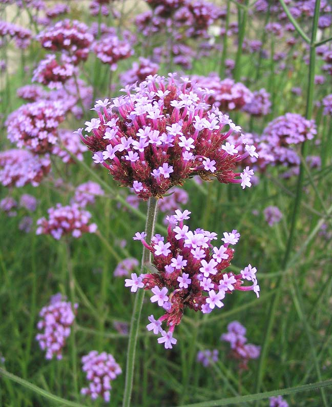 Verbena bonariensis - flora of, and garden plant from, South America. Photo prise au parc botanique de Meise en août 2004 Jean Tosti 2004